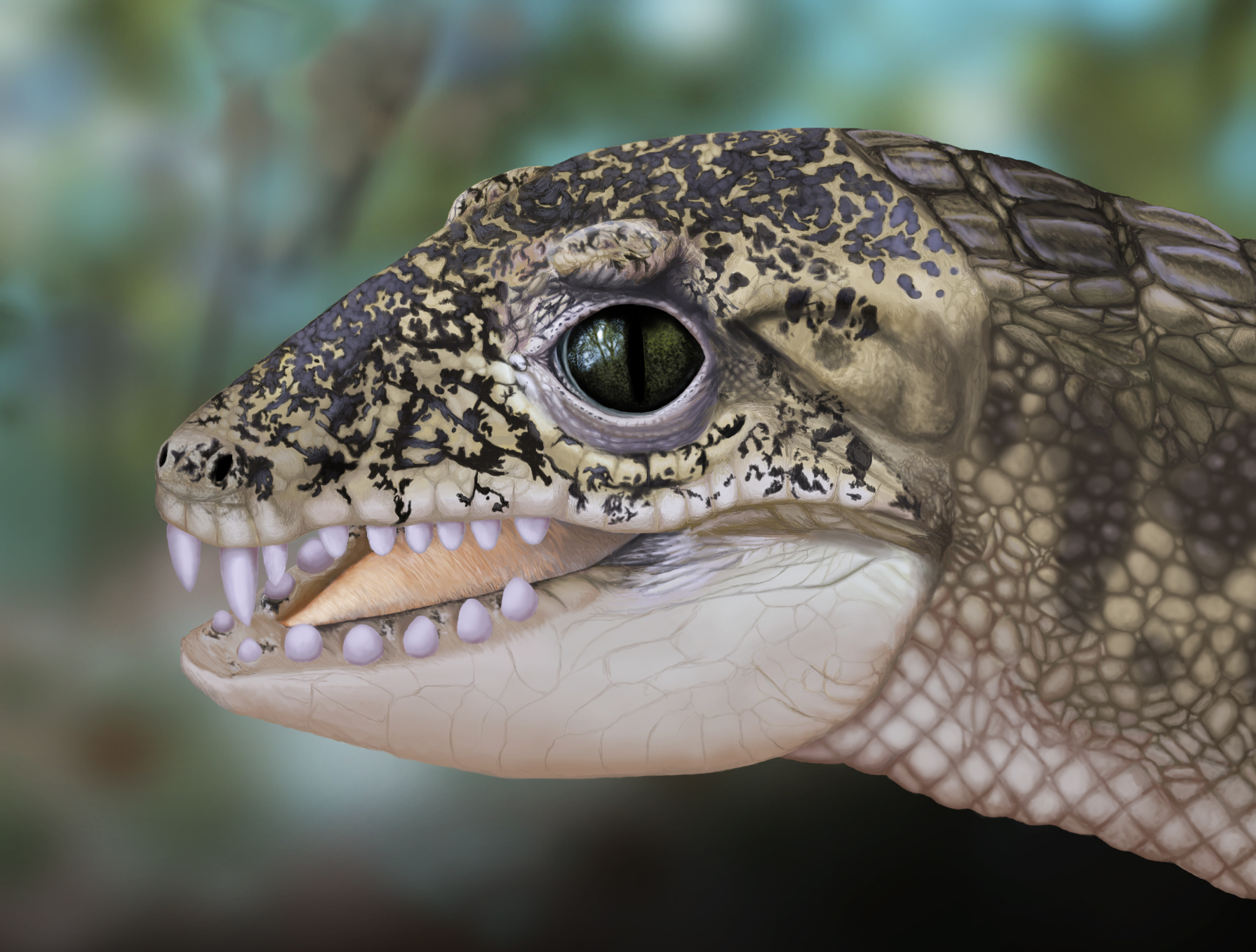 Life restoration of Morrinhosuchus luziae. Based on figures 3 and 4 of "Morrinhosuchus luziae, um novo Crocodylomorpha Notosuchia da Bacia Bauru, Brasil" by Fabiano Vidoi Iori and Ismar de Souza Carvalho (Revista Brasileira de Geociências 39 (4): 717–725).